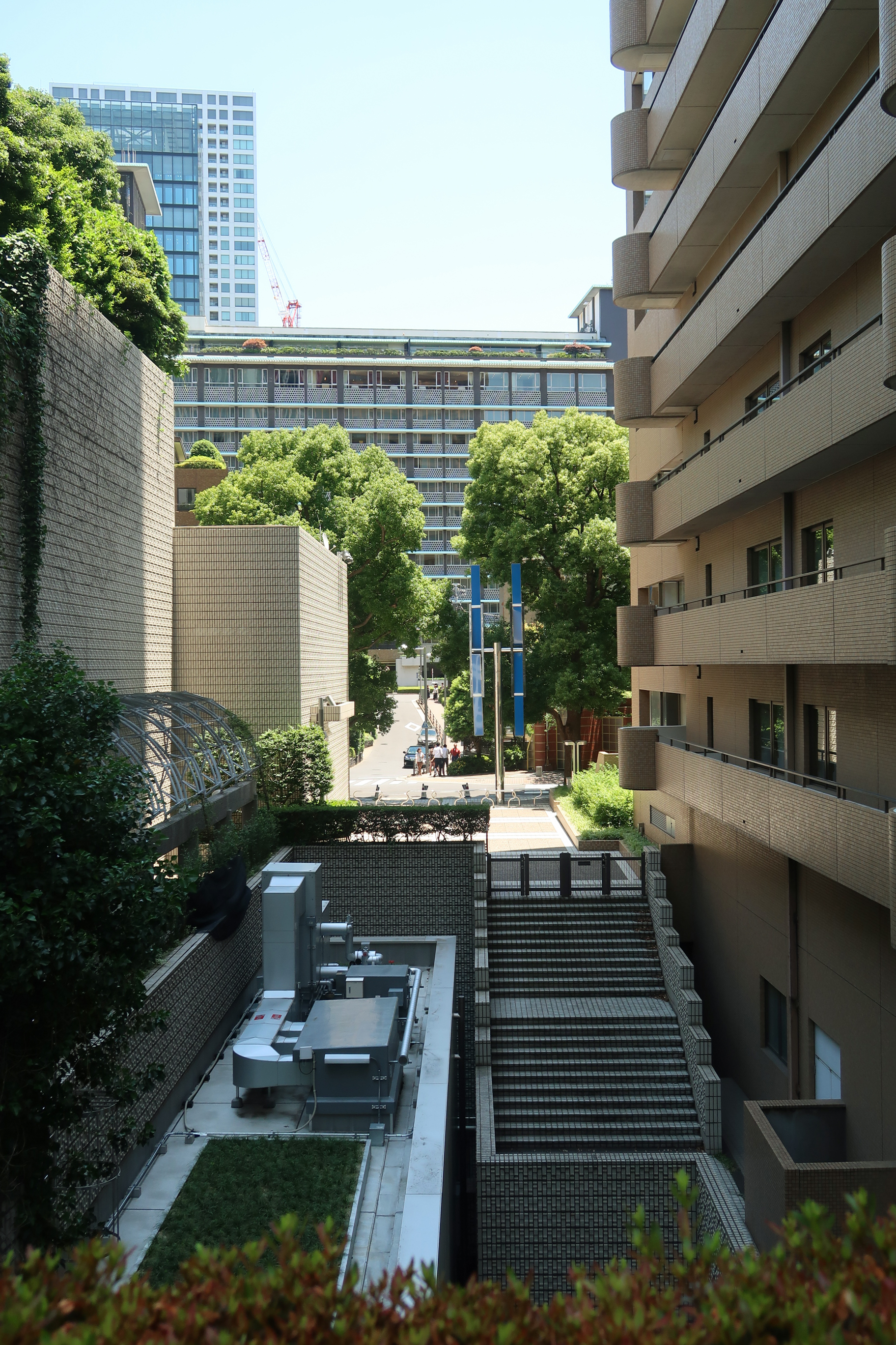 ARK Tower East Open Space